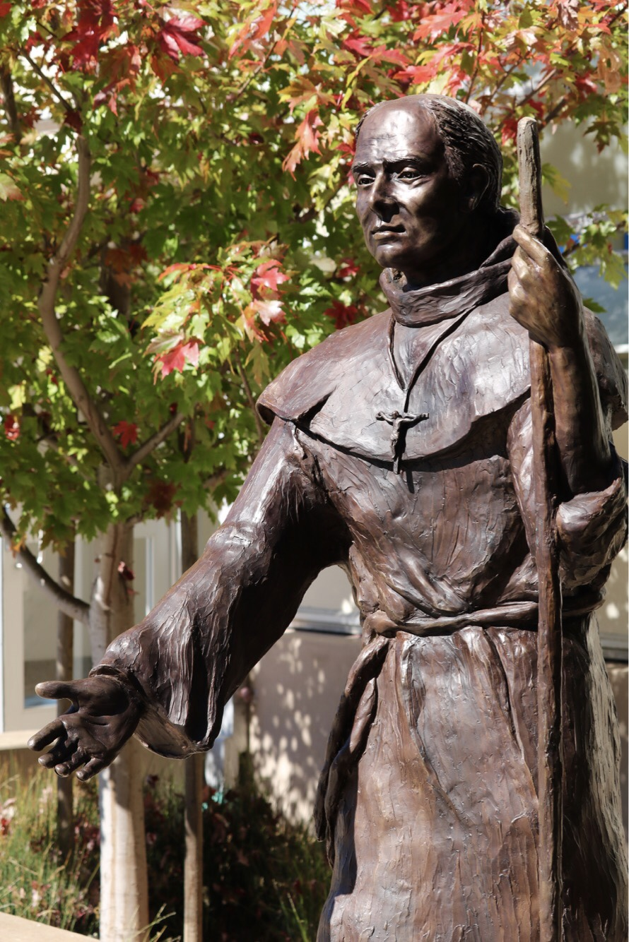 Statue of Saint Junipero Serra